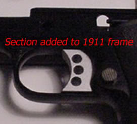 10mm Colt Delta Elite before fix to the 'cracking'